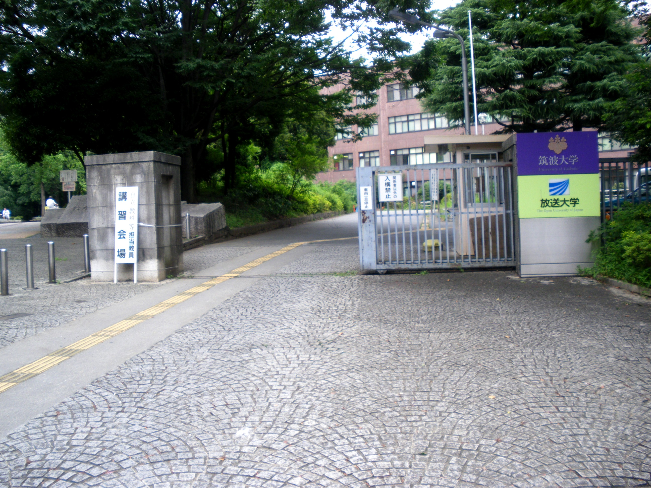 University of Tsukuba Otsuka Capmus(Bunkyo,Tokyo)